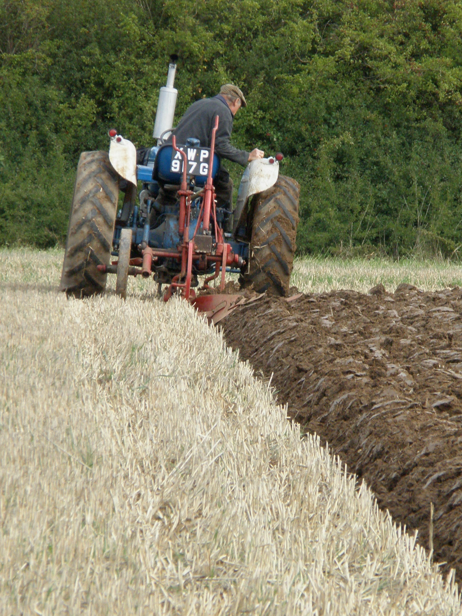 Tractor with a two-furrow plough. The Forest of Arden Agricultural Society 62nd Hedging and Ploughing Match. St Giles Farm, Spernal, Studley, Warwickshire.